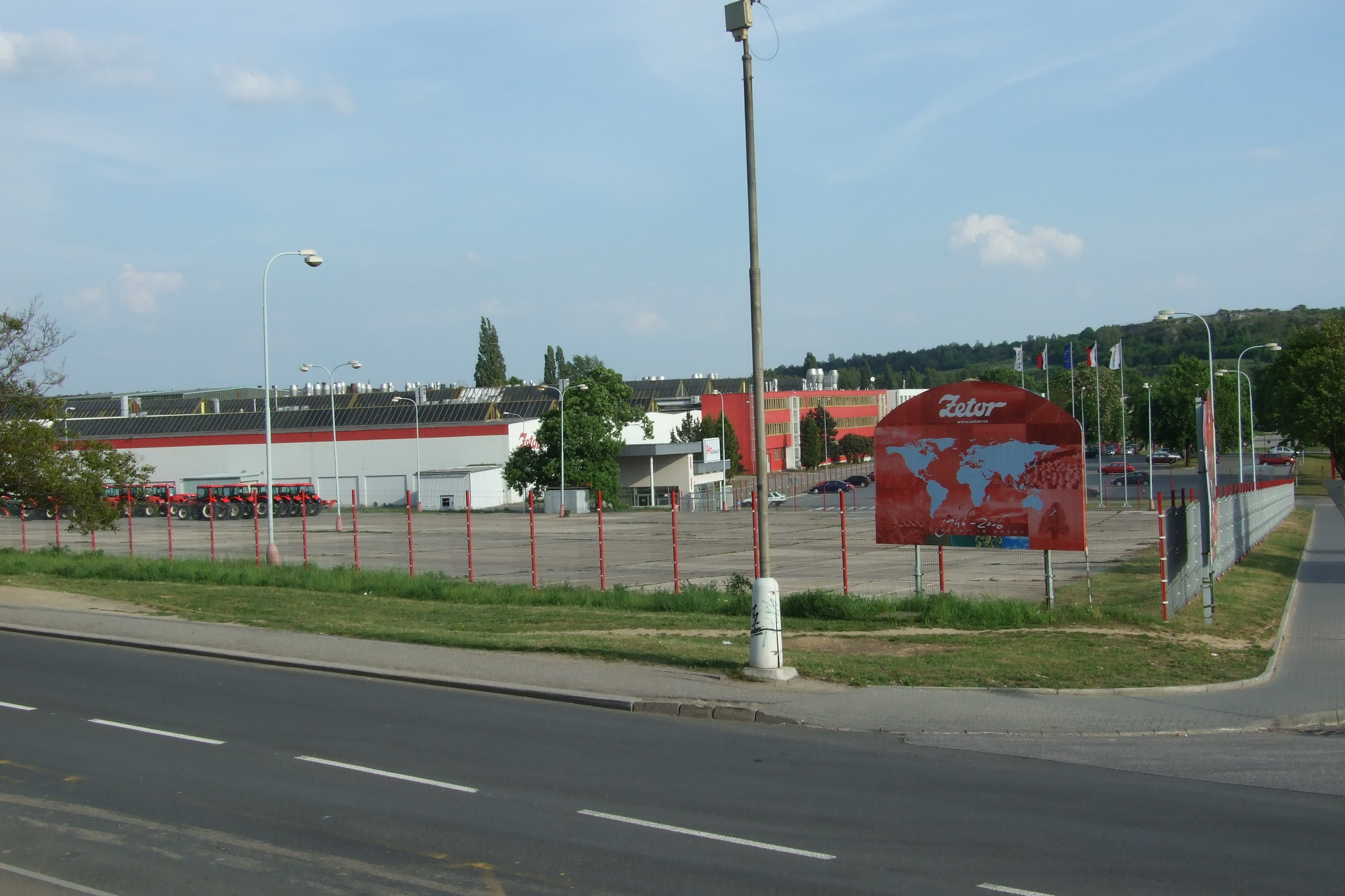 Zetor Tractors company area in Brno-Líšeň